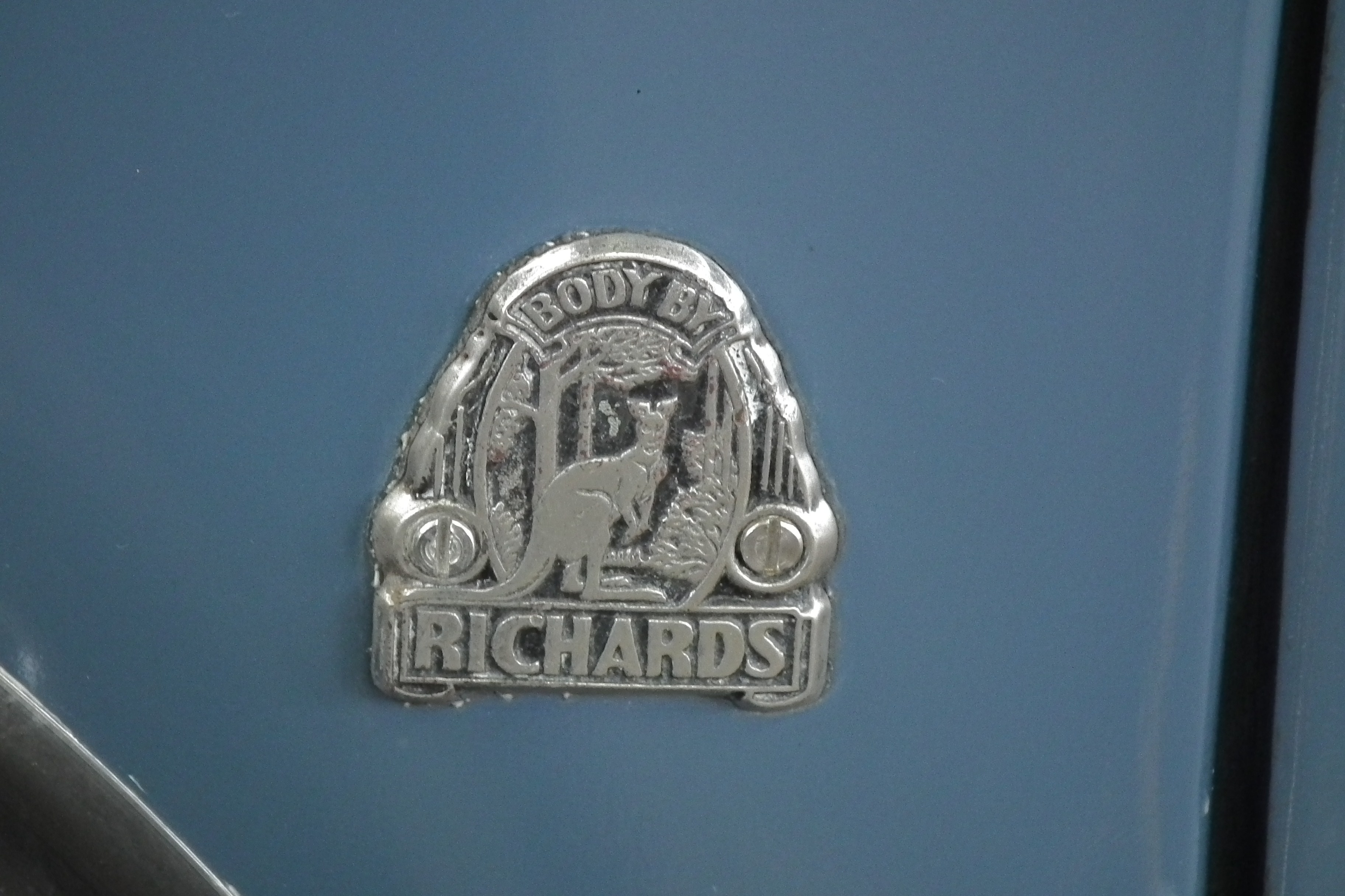 1939 Dodge TE32 table top body builder's badge. Bodywork by T J Richards. Taken at the 2011 New South Wales All Chrysler Day, held at Fairfield Showground, Prairiewood, Sydney.